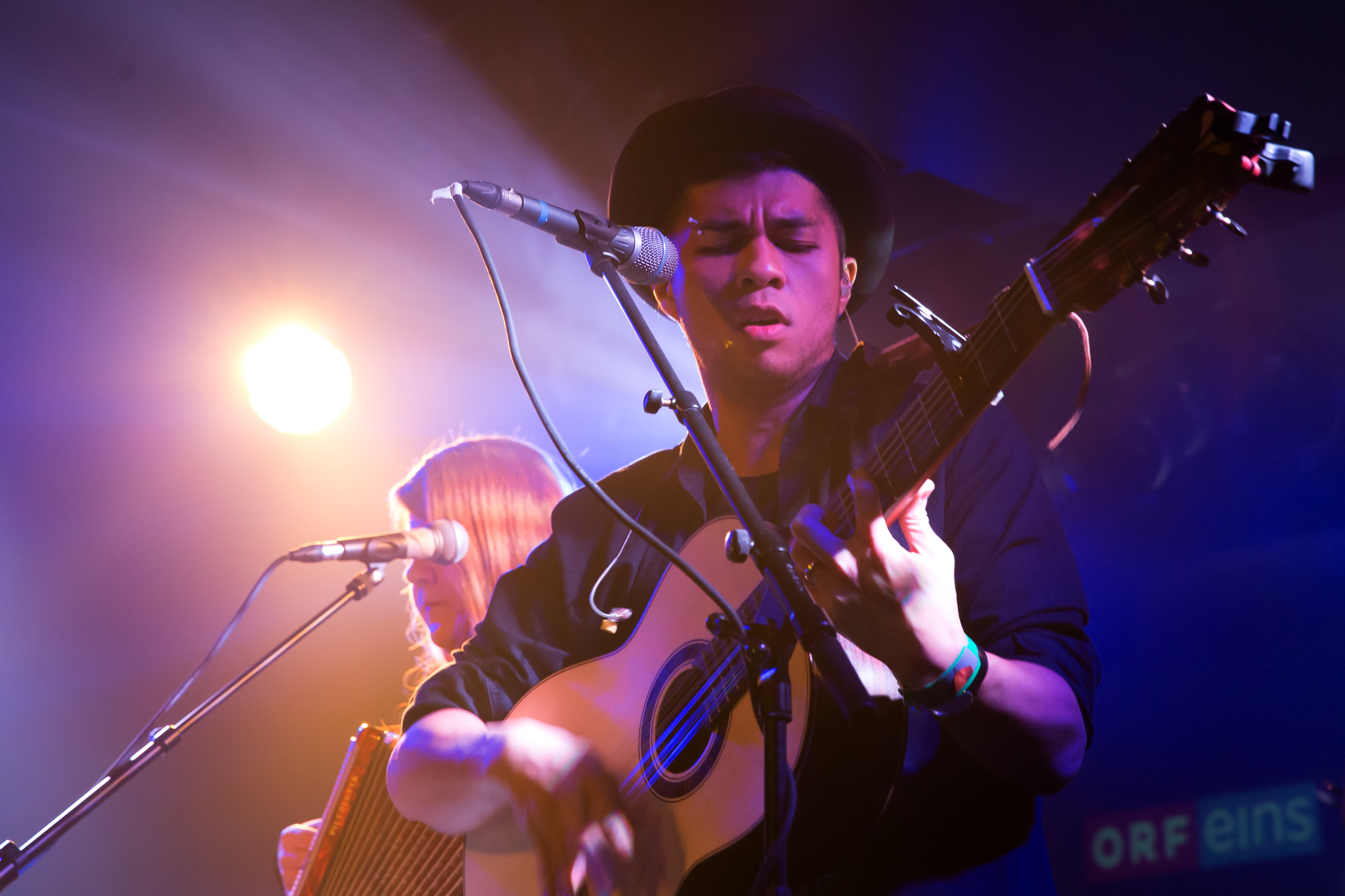 DAWA at the concert of the Austrian candidates for participating at the Eurovision Song Contest 2015; Chaya Fuera, Vienna,Austria.